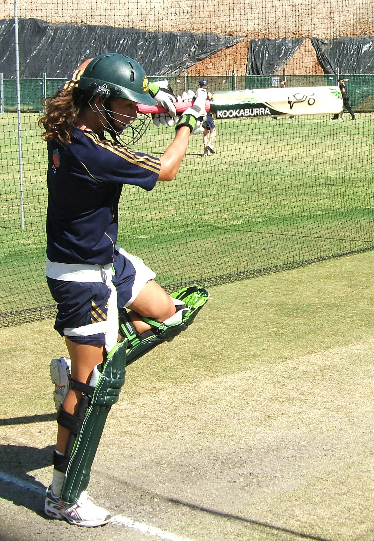 Named person engaging in named action at Adelaide Oval nets/training ground